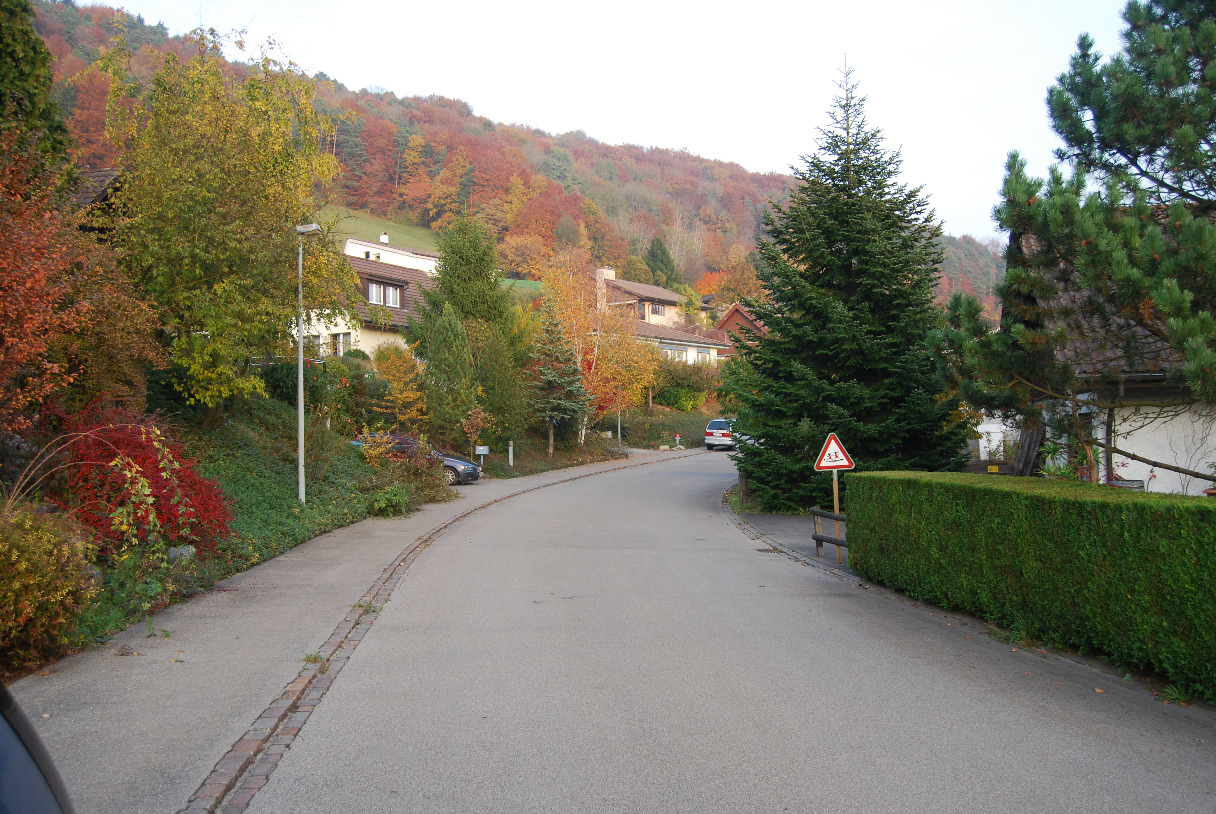 Dättlikon, canton of Zürich, SwitzerlandEsperanto: Dättlikon, Kantono Zuriko, Svislando